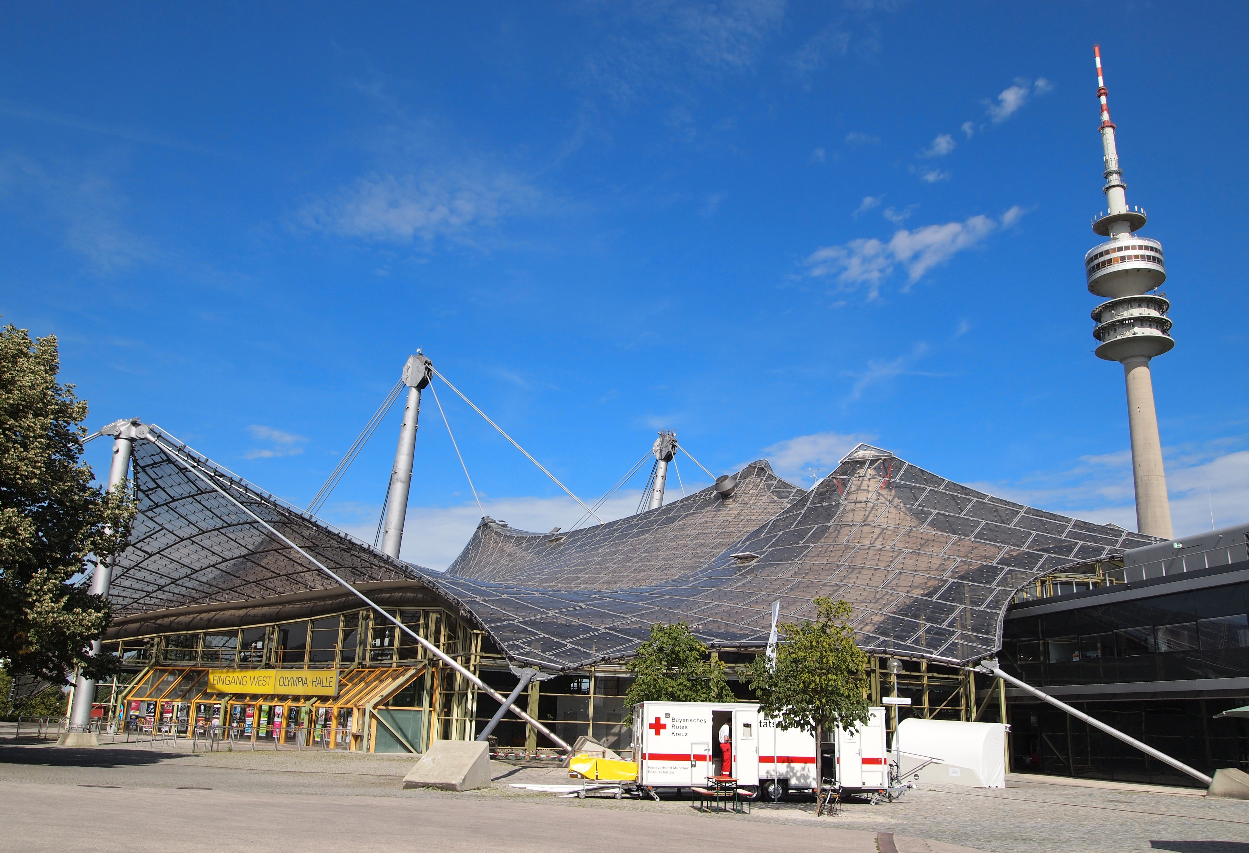 Olympic hall and Olympiaturm TV tower in Olympiapark, Munich. This photograph was taken with an Olympus E-PL1